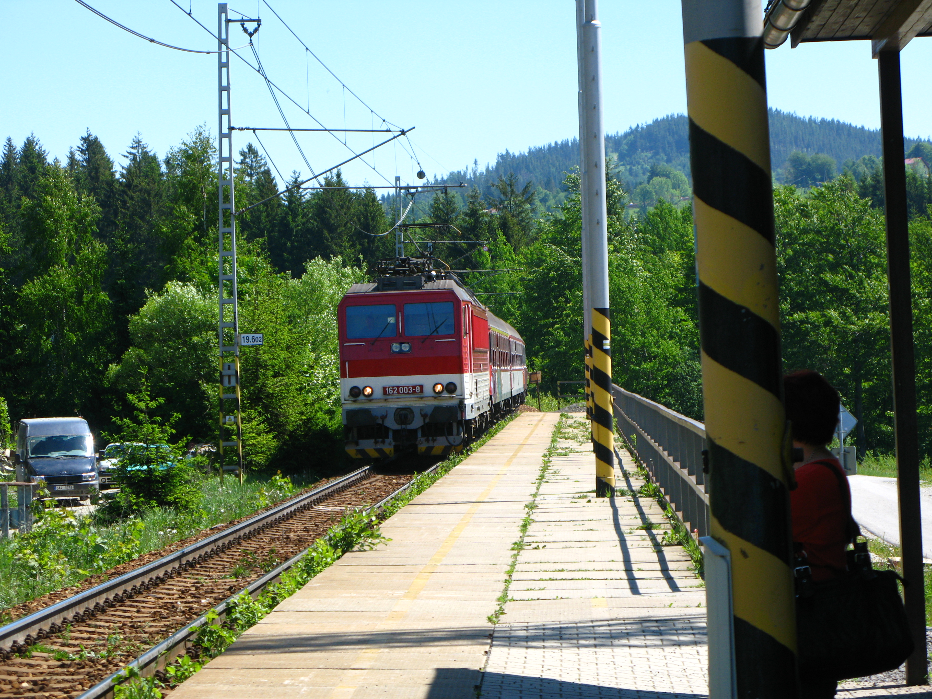 ZSSK Train (Škoda 98E1 #162 003-8, ZSSK Class 162) in Skalité Serafínov train station, Slovakia